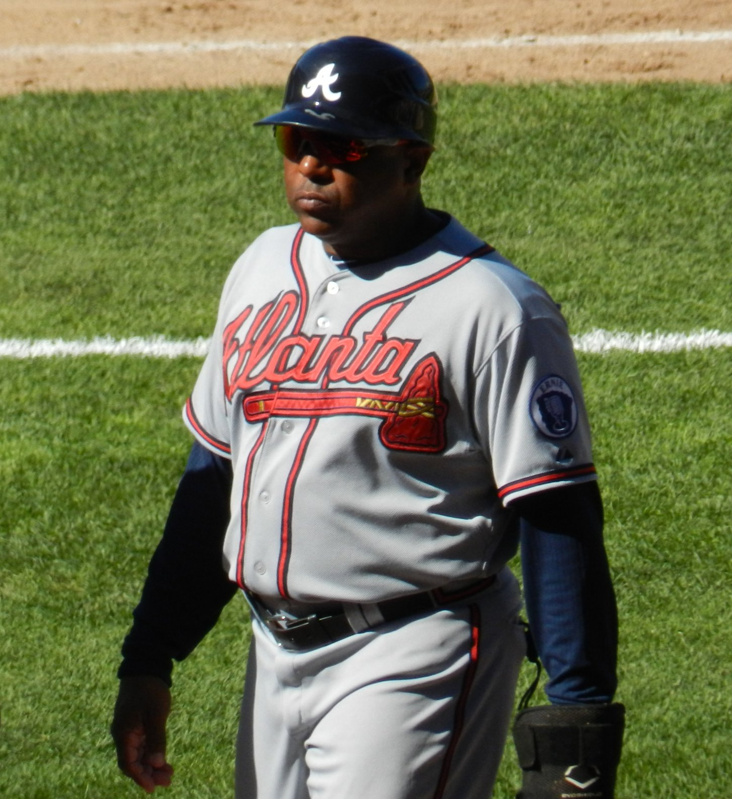 Terry Pendleton was one of my favorite players when I was a kid. Atlanta Braves vs. Chicago Cubs August 25, 2011. Wrigley Field, Chicago, Illinois, USA.